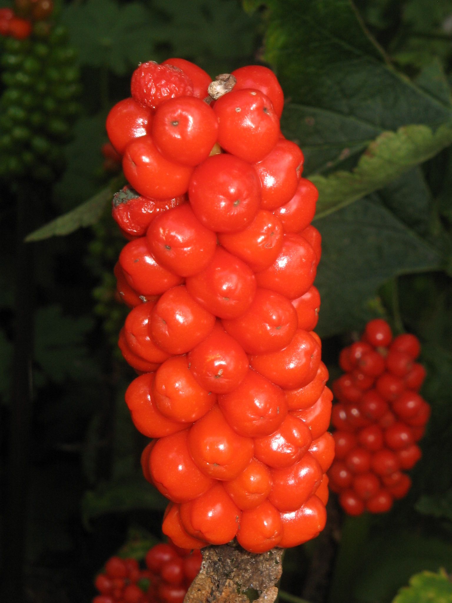 Arum italicum fruits